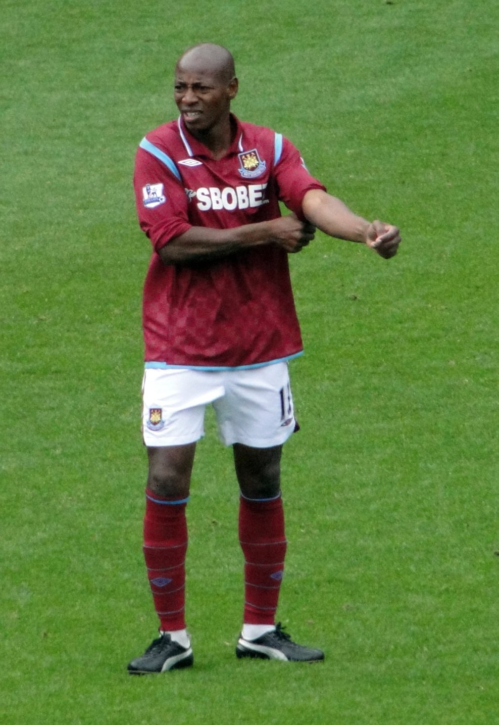 West Ham United player Luis Boa Morte before West Ham's home game v Manchester City, May 2010